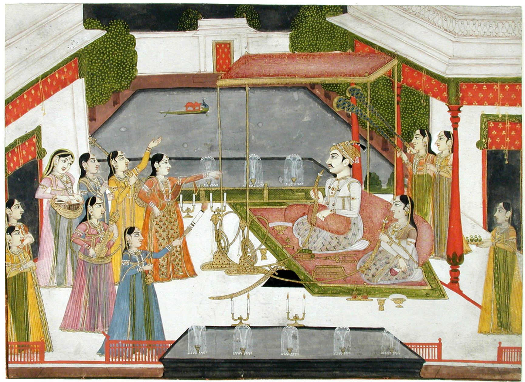 Mir Qasim, with a mistress, entertained by musicians and dancers